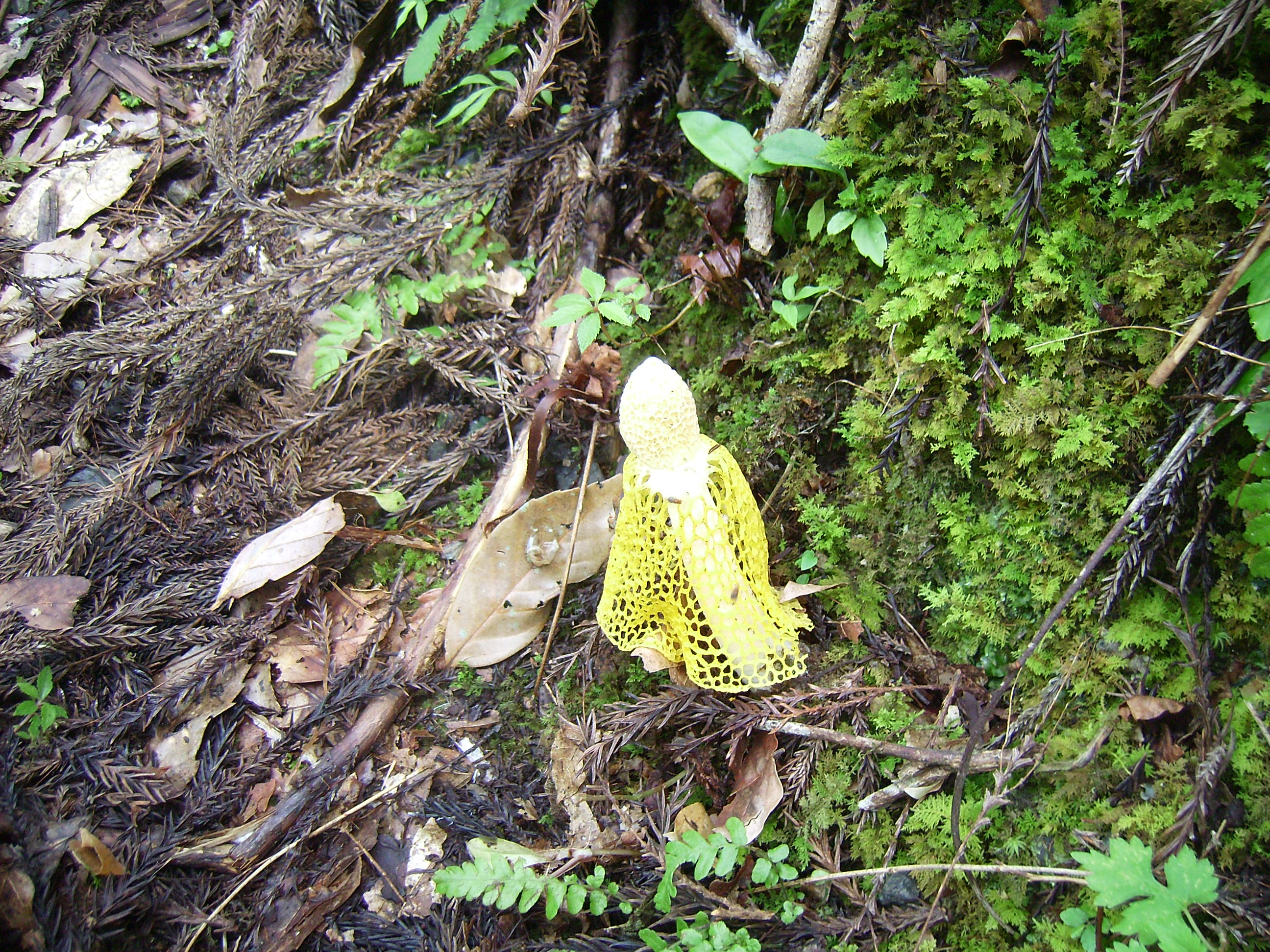 Phallus luteus (Liou & L. Hwang) T. Kasuya Image location: Japan insects all over it Used references: SEE LINKS ON: For more information about this, see the observation page at Mushroom Observer.